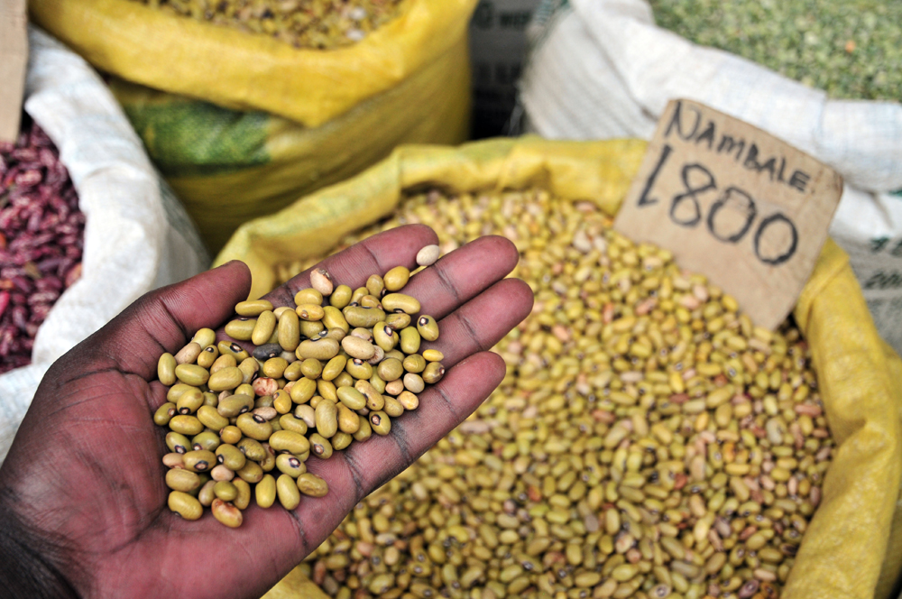 Pic by Neil Palmer (CIAT). Bean Market in Kampala, Uganda. Full caption to follow.